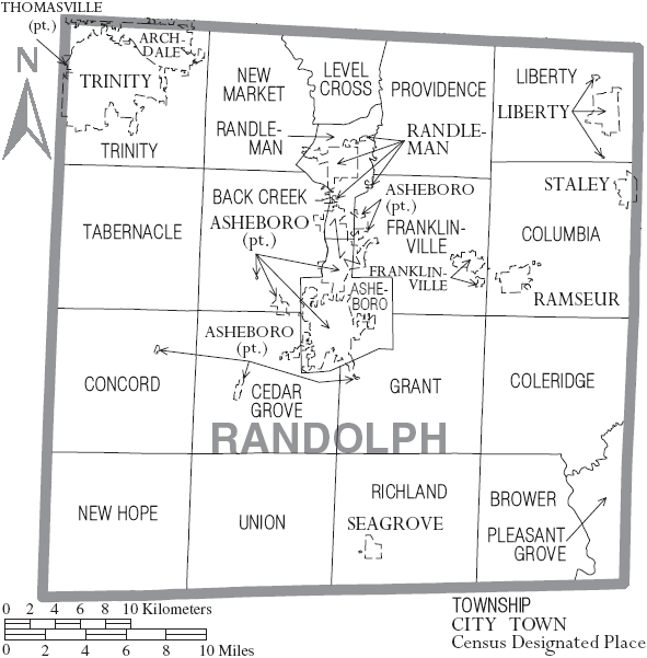 Map of Randolph County, North Carolina, United States with township and municipal boundaries